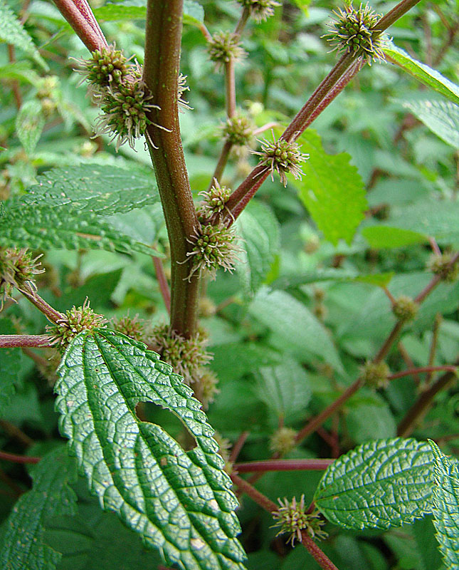 Ranging from Mexico to southeastern Brazil. Photo from northern Nicaragua.